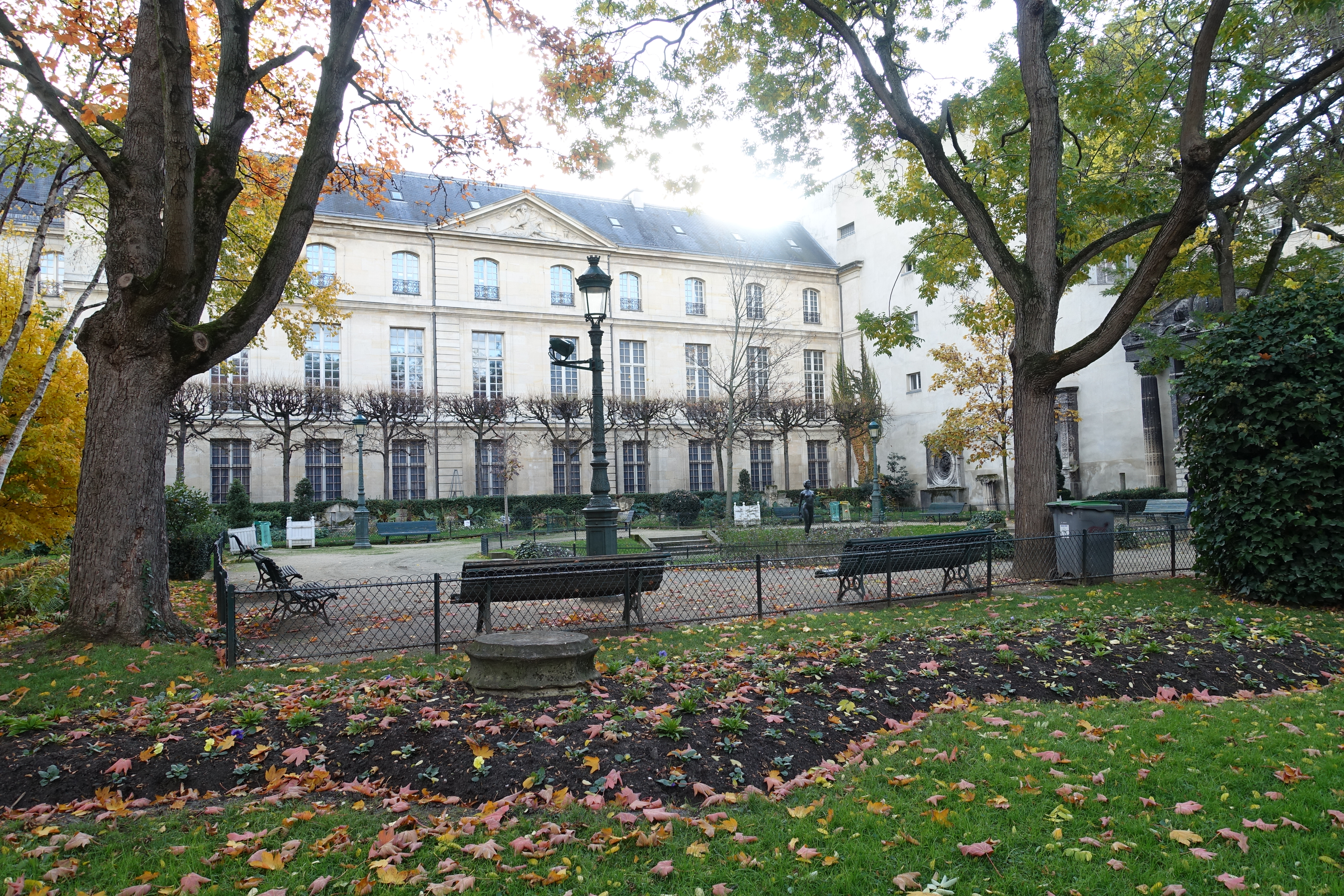 Square George Cain @ Paris